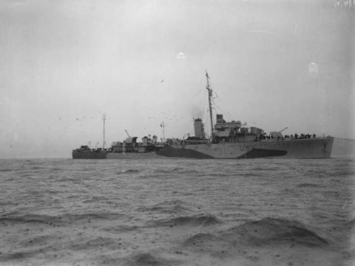 Photograph of British sloop HMS Lowestoft.